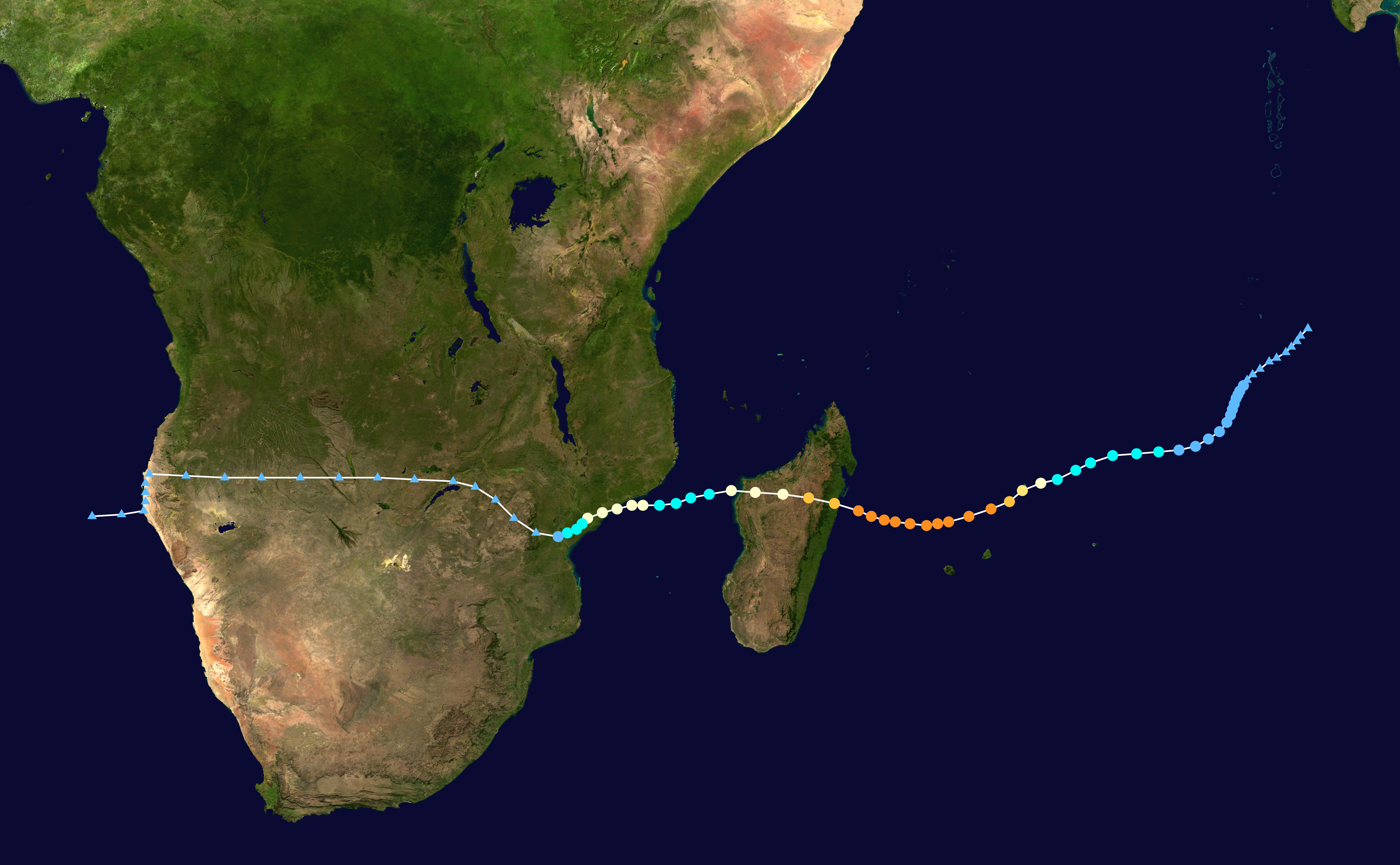 Cyclone Bonita (1995) track. Uses the color scheme from the Saffir-Simpson Hurricane Scale.